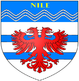 Arms of John Hanning Speke (1827-1864): Argent, two bars azure overall an eagle with two heads displayed gules with honourable augmentation a chief azure thereon a representation of flowing water proper superinscribed with the word "Nile" in letters gold (Burke's Genealogical and Heraldic History of the Landed Gentry, 15th Edition, ed. Pirie-Gordon, H., London, 1937, p.2104, Speke of Jordans)